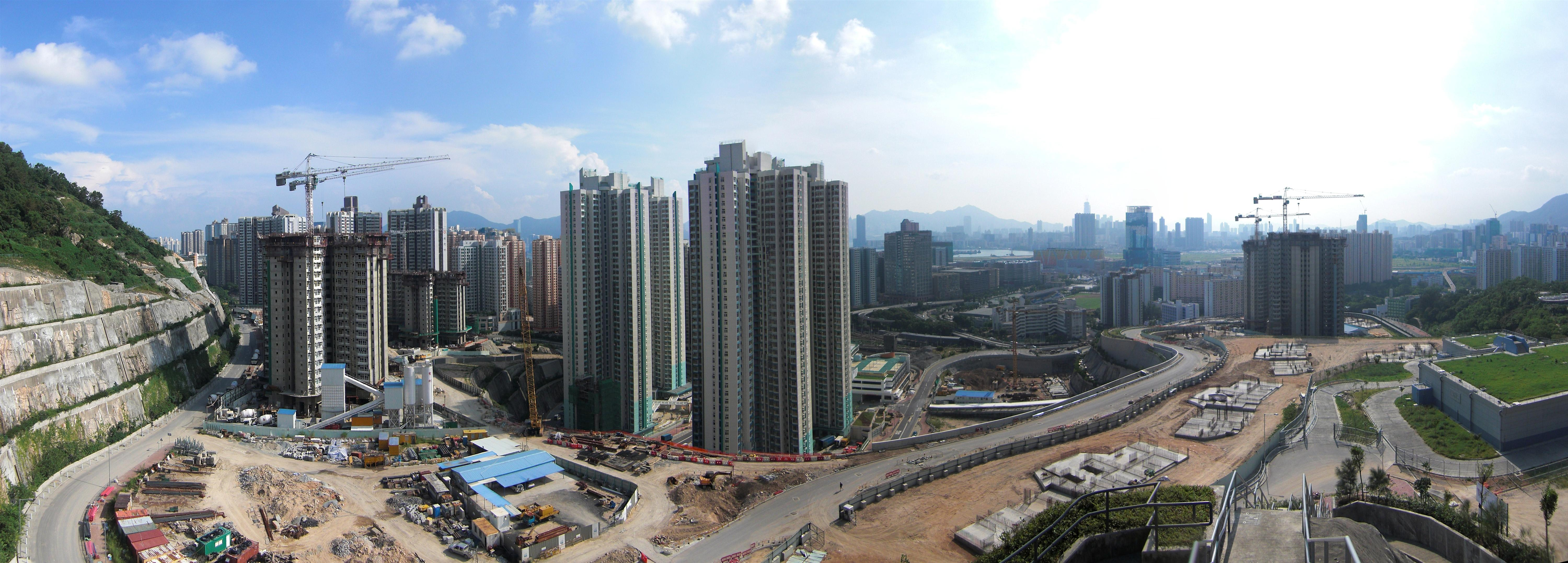 General view of Choi Wing Road. Choi Tak Estate and Choi Fook Estate are found.